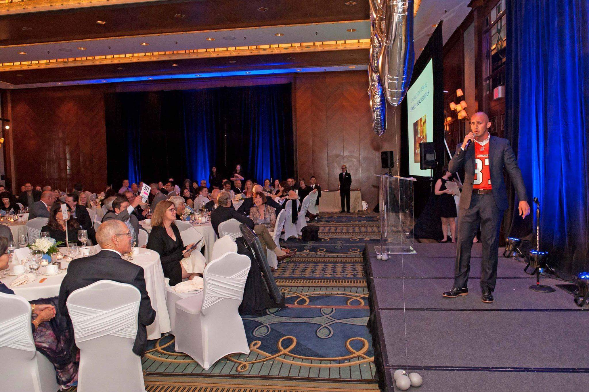 Live auctioneer marco iannuzzi BC Centre for ability